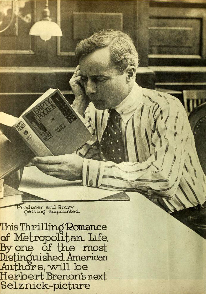 Advertisement in Moving Picture World